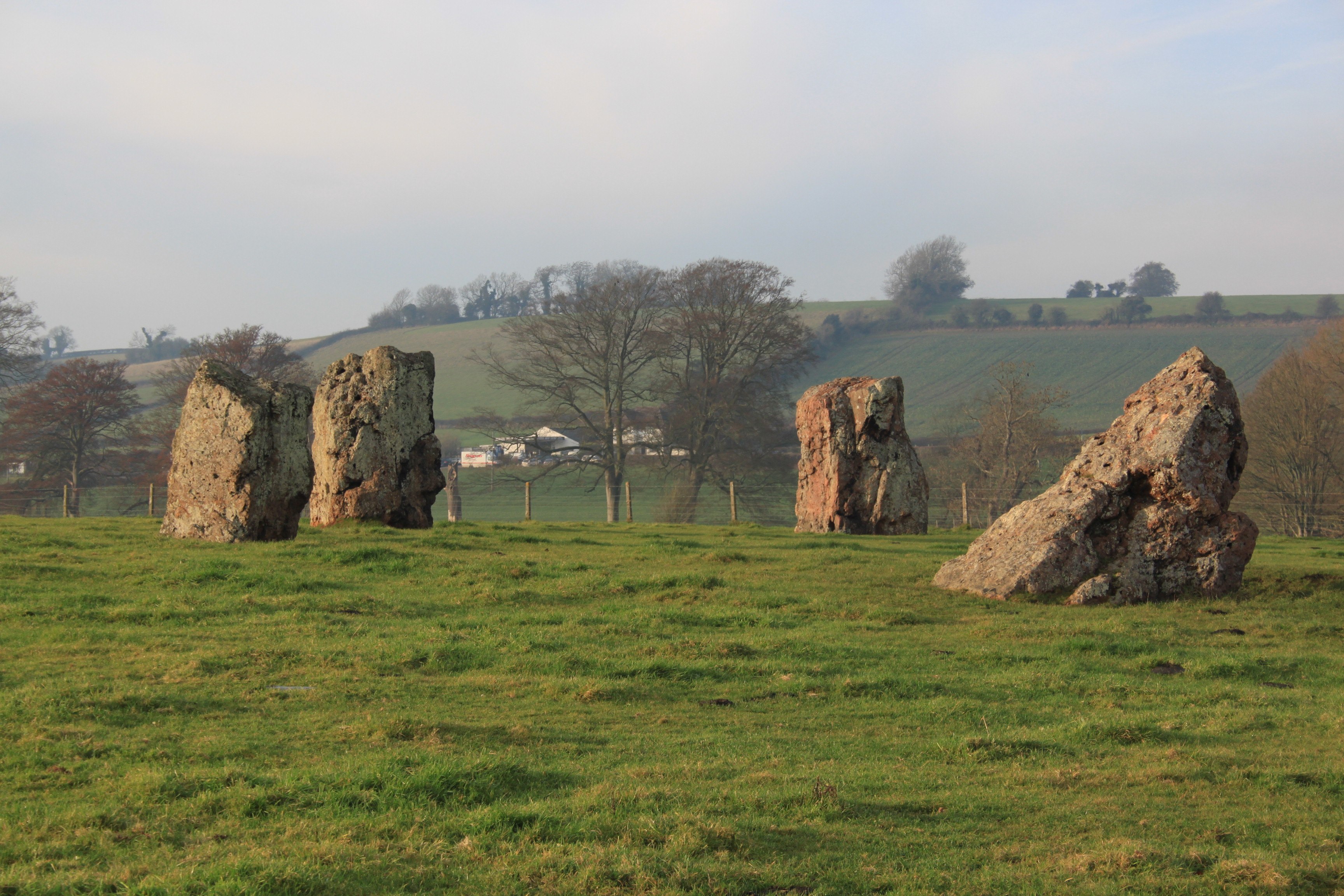 The stone circles at Stanton Drew, Somerset, England